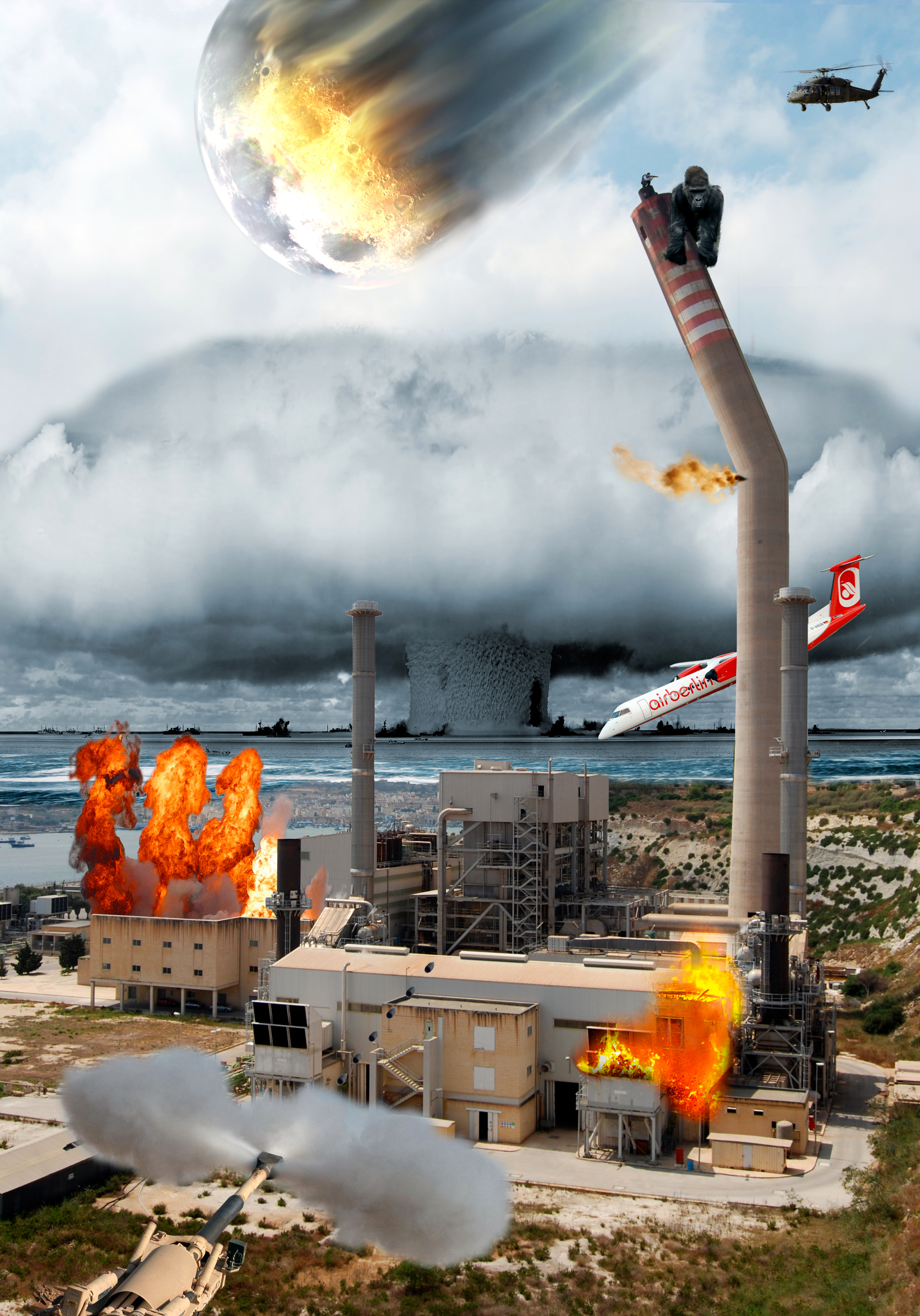 This is a photomontage, to illustrate subject and the difficulties to combine images with incompatible or compatible licences.